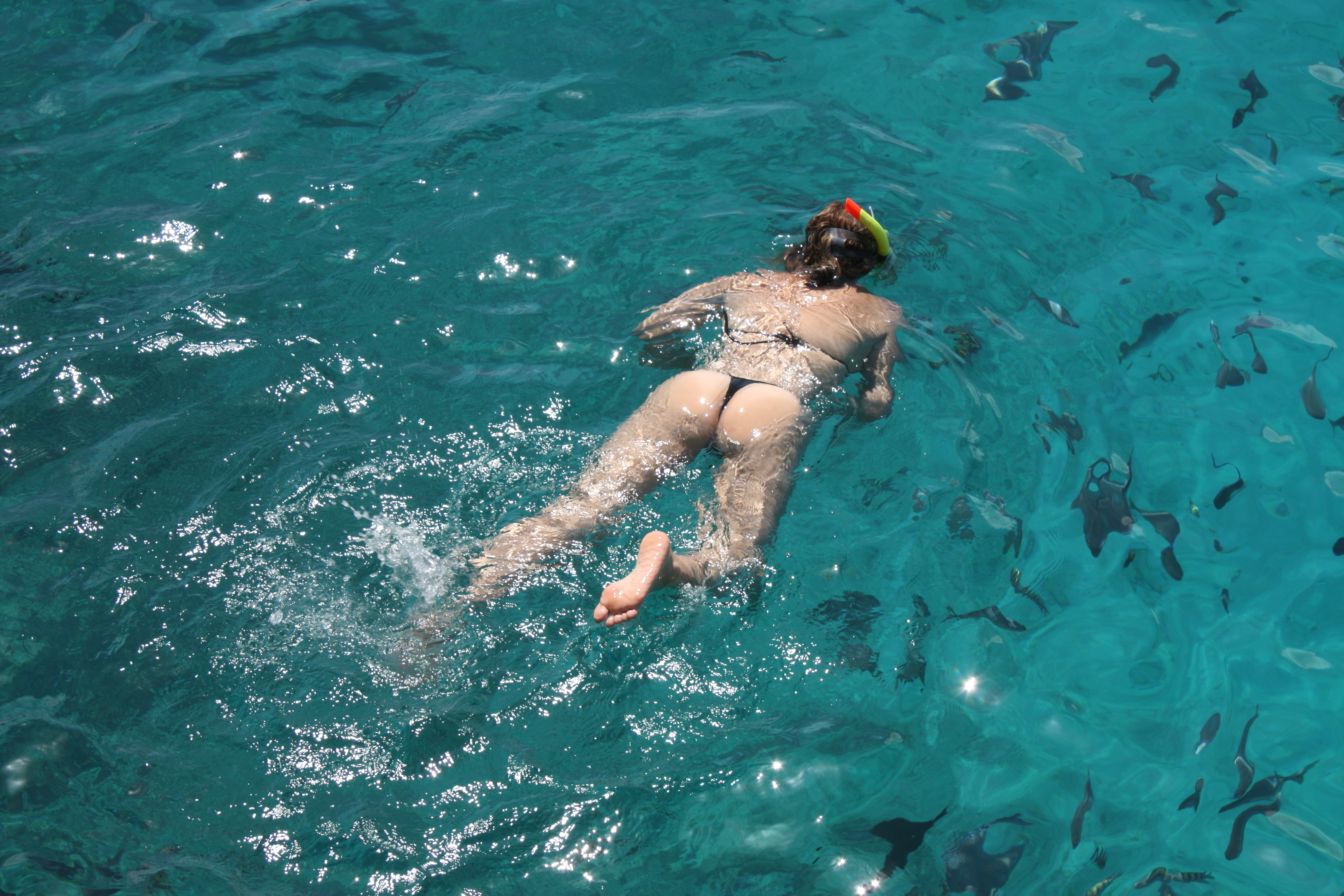 A woman snorkelling on the coast of San Andrés, Archipelago of San Andrés, Colombia.